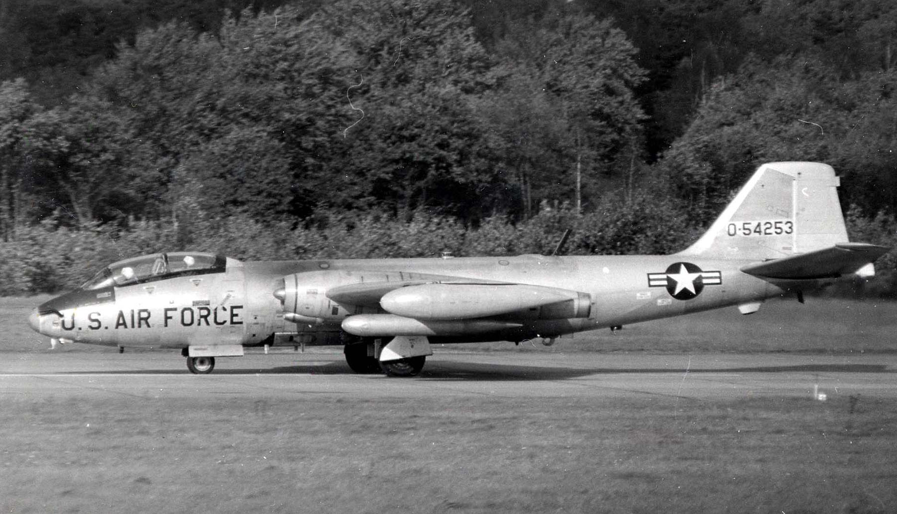 Martin EB-57E Canberra side view (SN 55-4253)